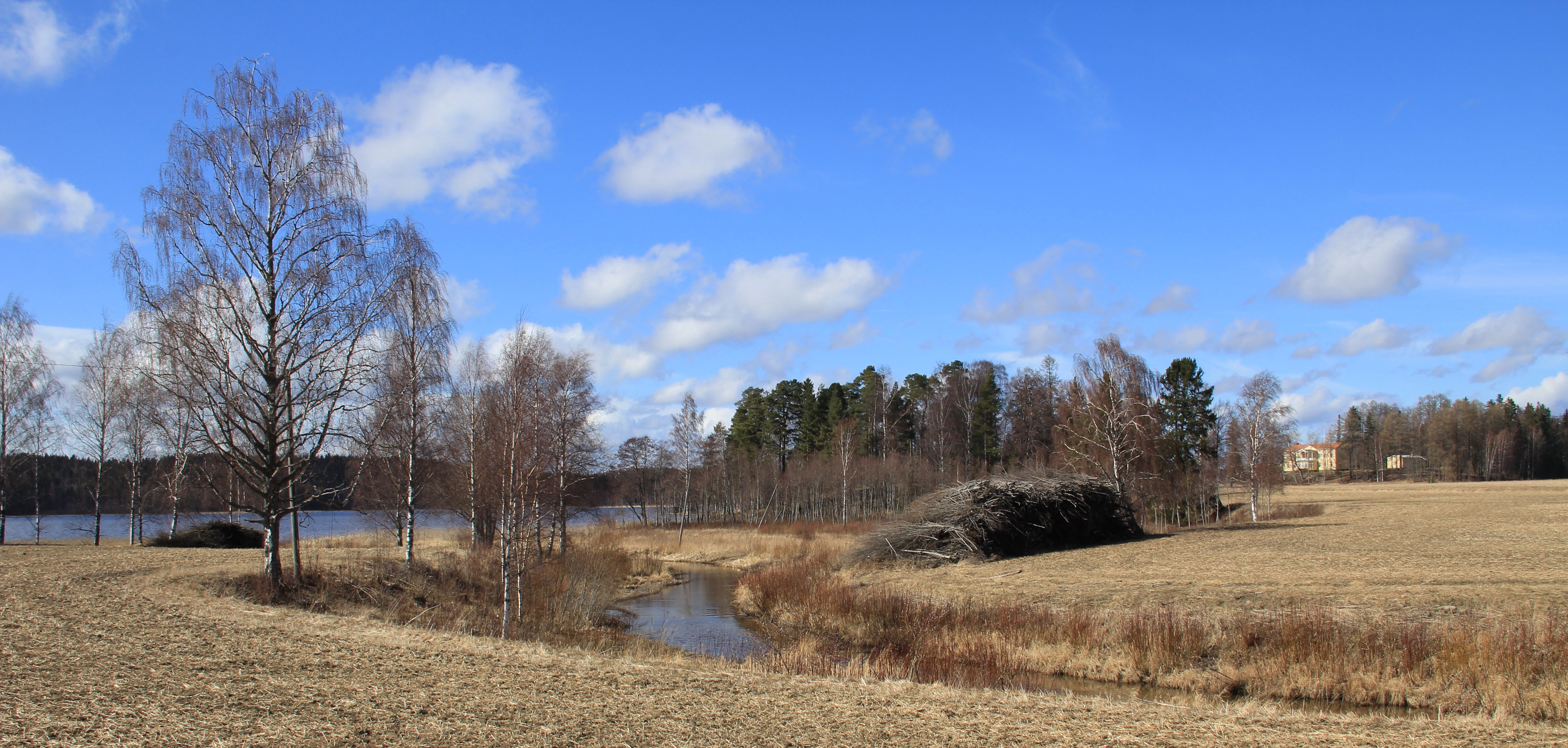 Mommila manor, River Pätilä and Lake Mommila seen from the Mommila chuchyard, Hausjärvi, Finland.